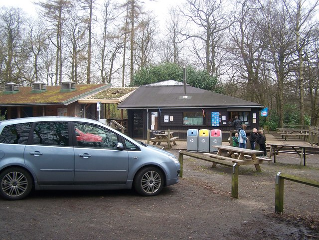 Visitor Centre in Trosley Country Park Building with green roof (living plants) is a toilet block.